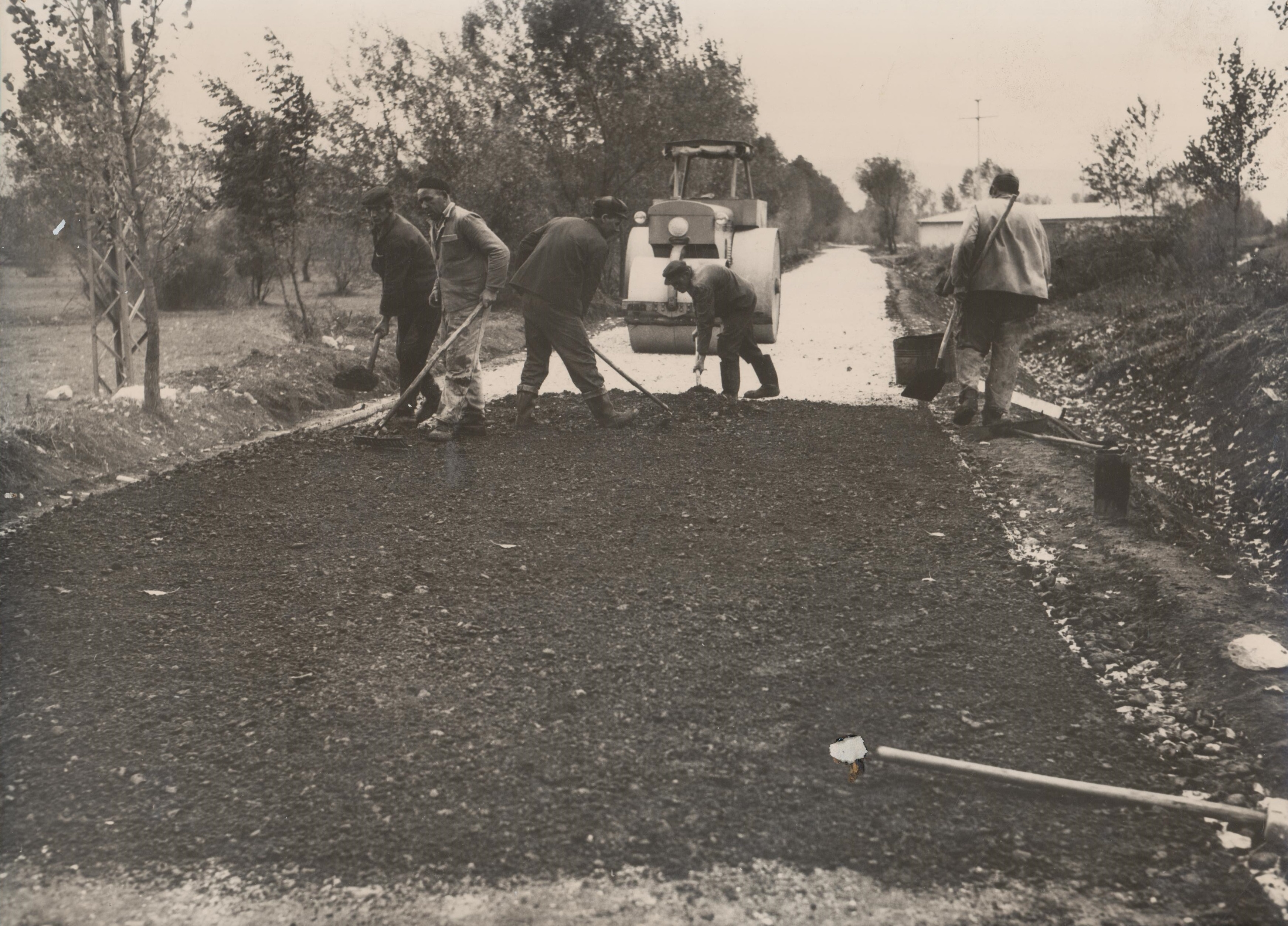 Construction of the Pirot Barje Ciflik road in 1971.